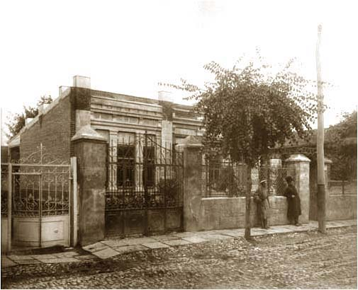 Ilia Chavchavadze's home in Tbilisi.